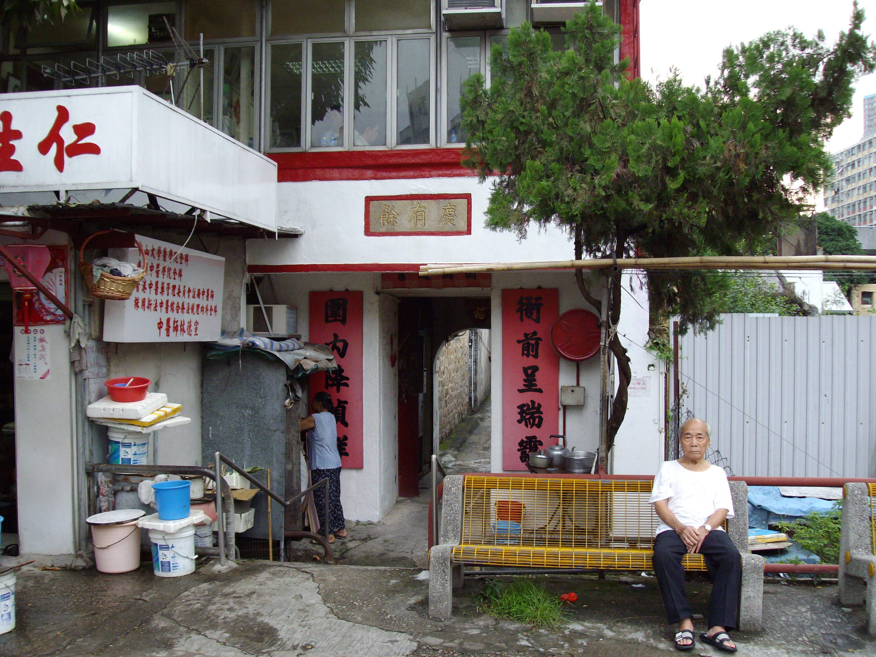 This photo is taken by User:Itsmine, with camera model :PENTAX Optio E30, and double licensed as cc-by-sa-3.0/2.5/2.0/1.0 or GFDL.